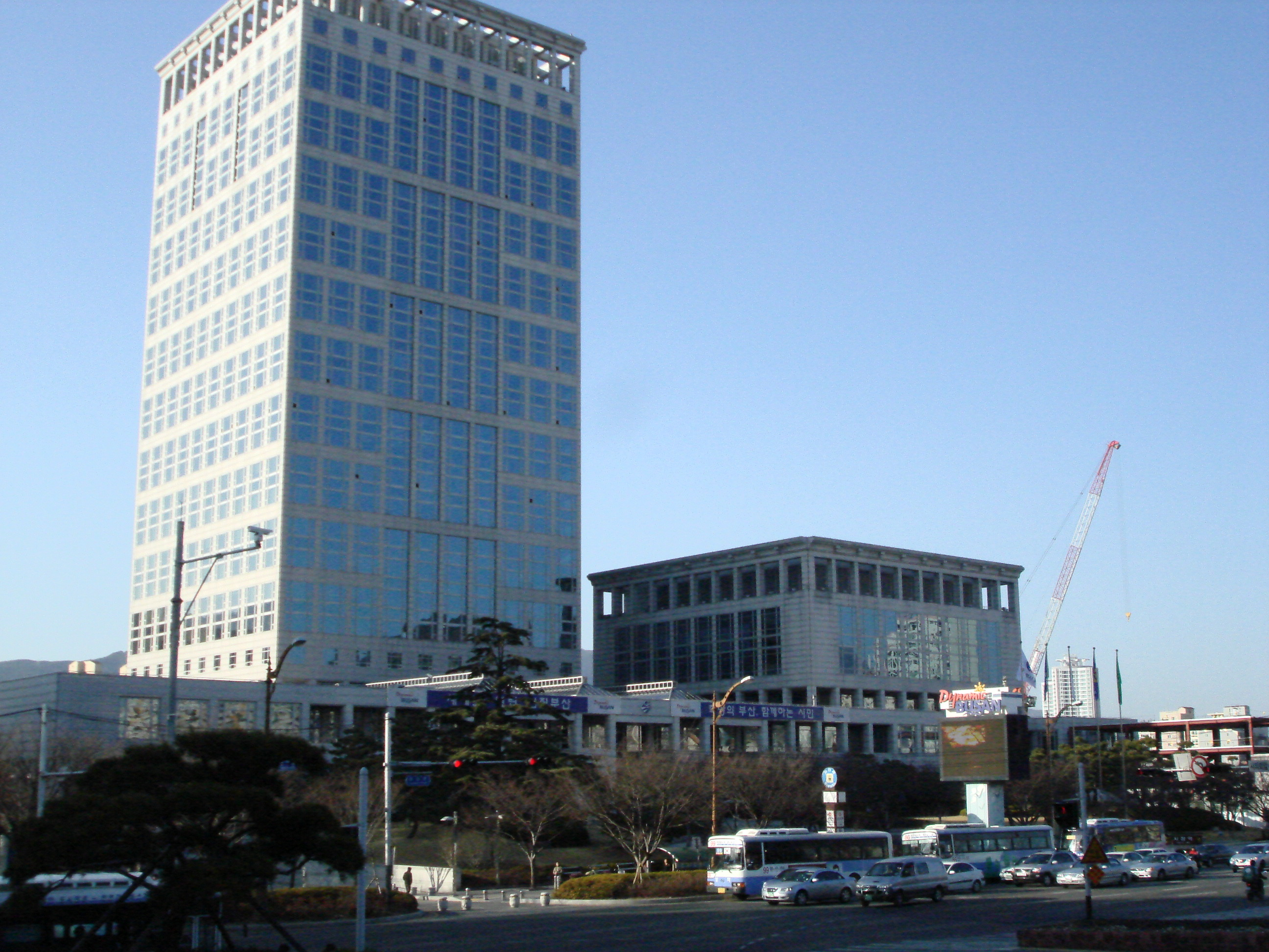 Busan City Hall (시청), left building, and City Council (시의회), right building